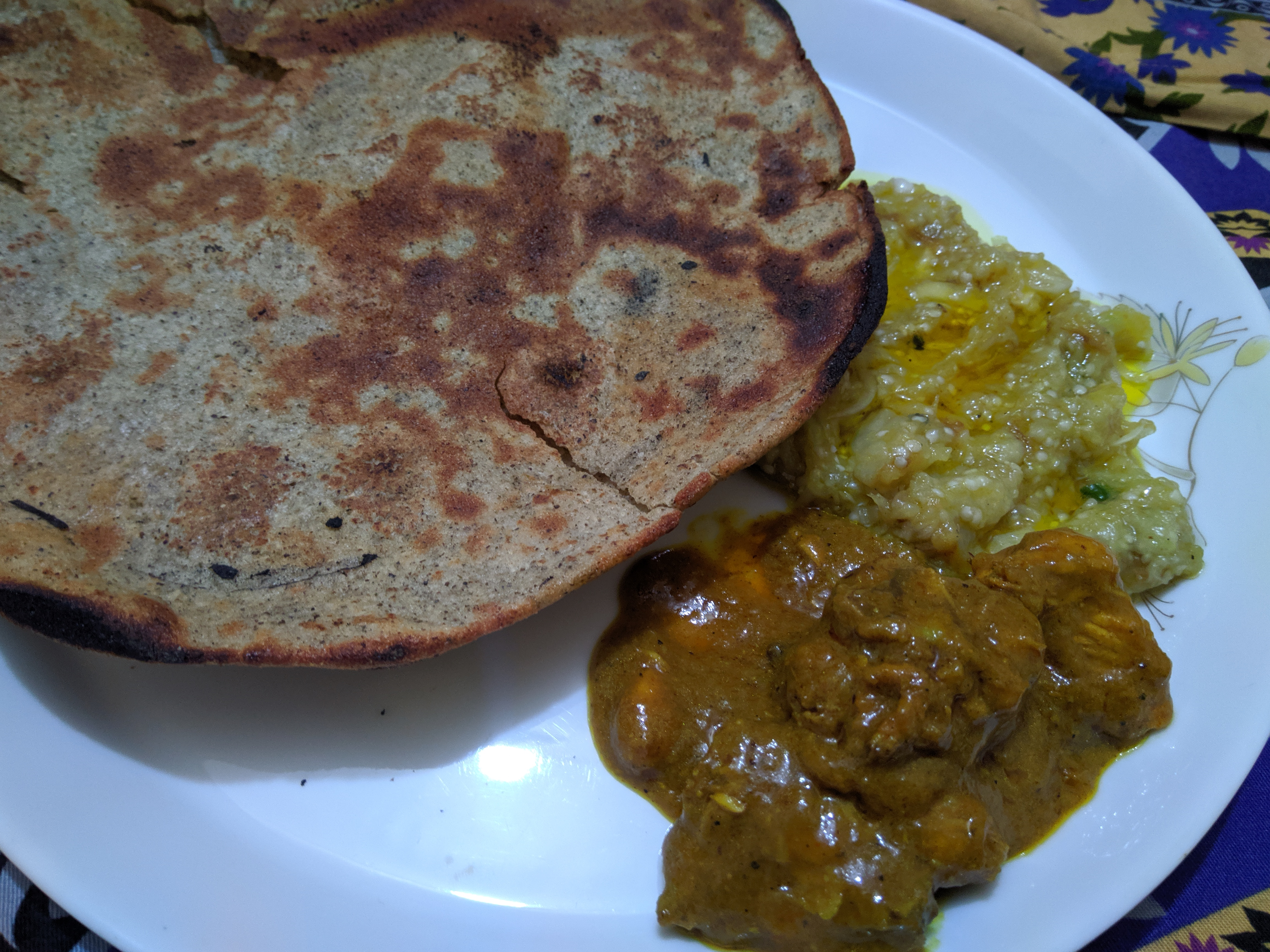 One of the iconic food from Rajshahi